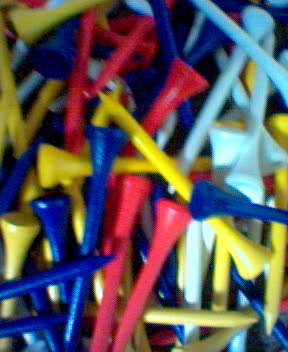 Golf tees, used to prop up the ball